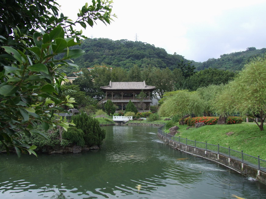 traditional chinese garden in National Palace Museum in Taipei, Taiwan